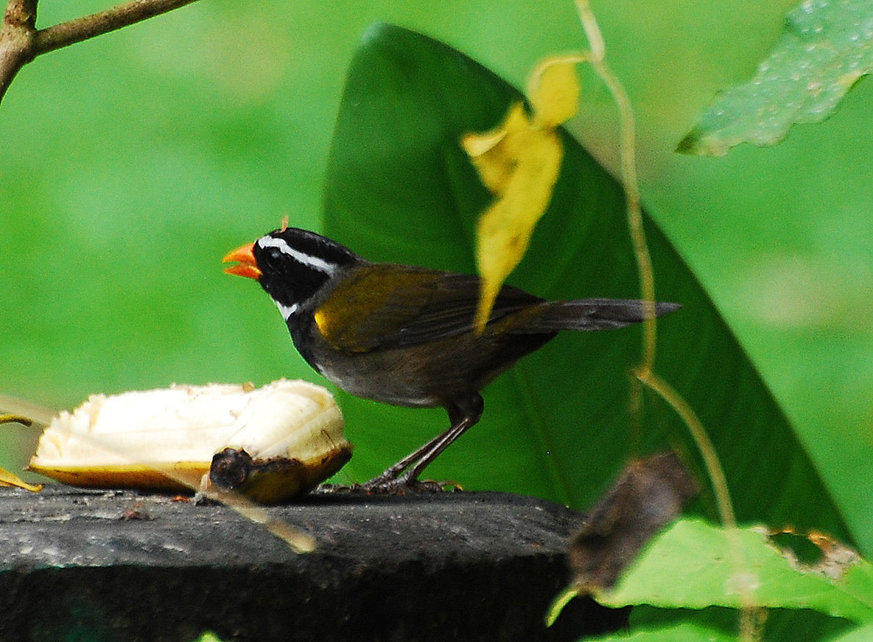 Orange-billed Sparrow at Selva Verde Lodge, Costa Rica, 080225. Arremon aurantiirostris.